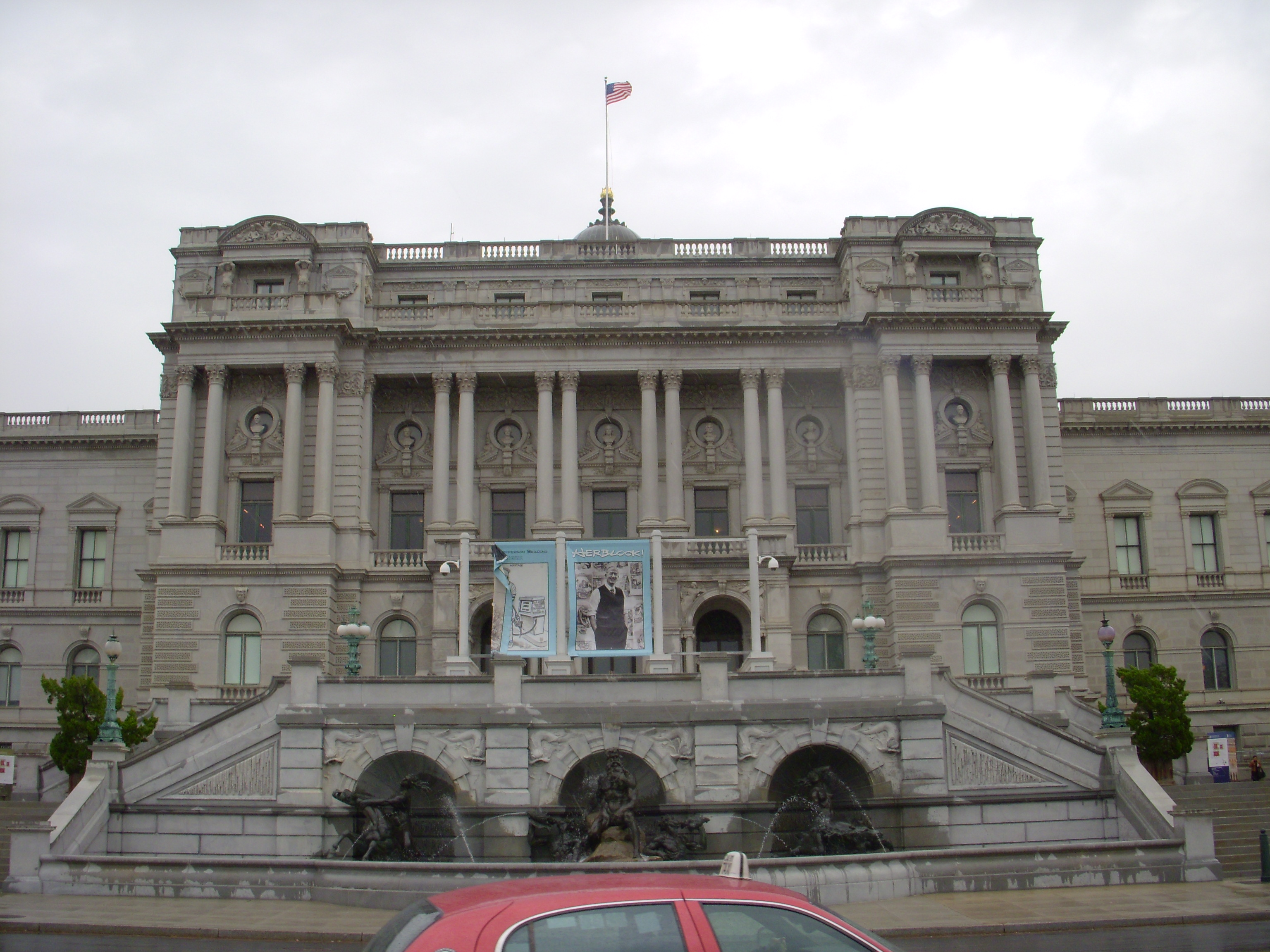 Façade of the Thomas Jefferson Building